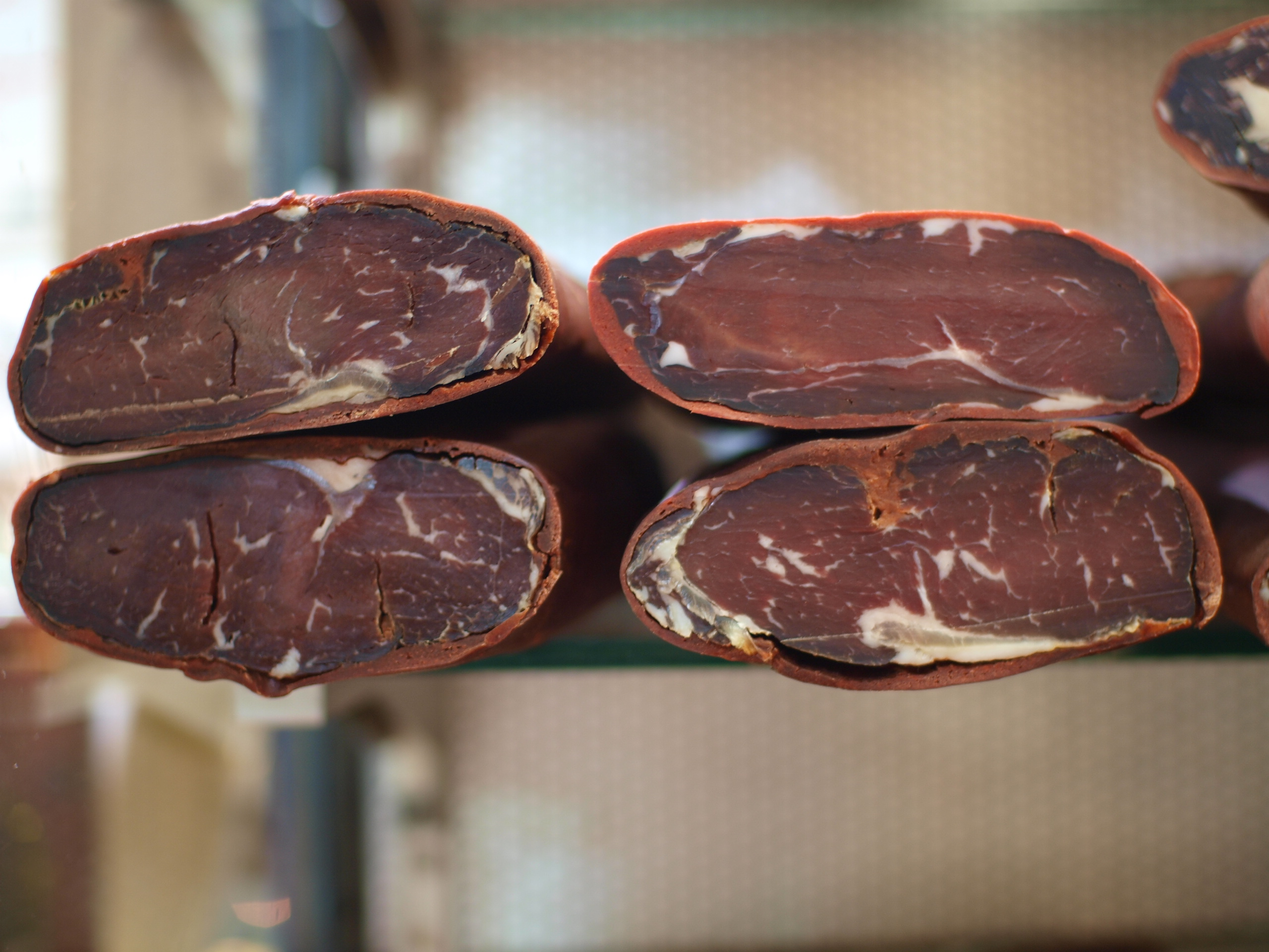 Istanbul Spice Bazaar Pastirma